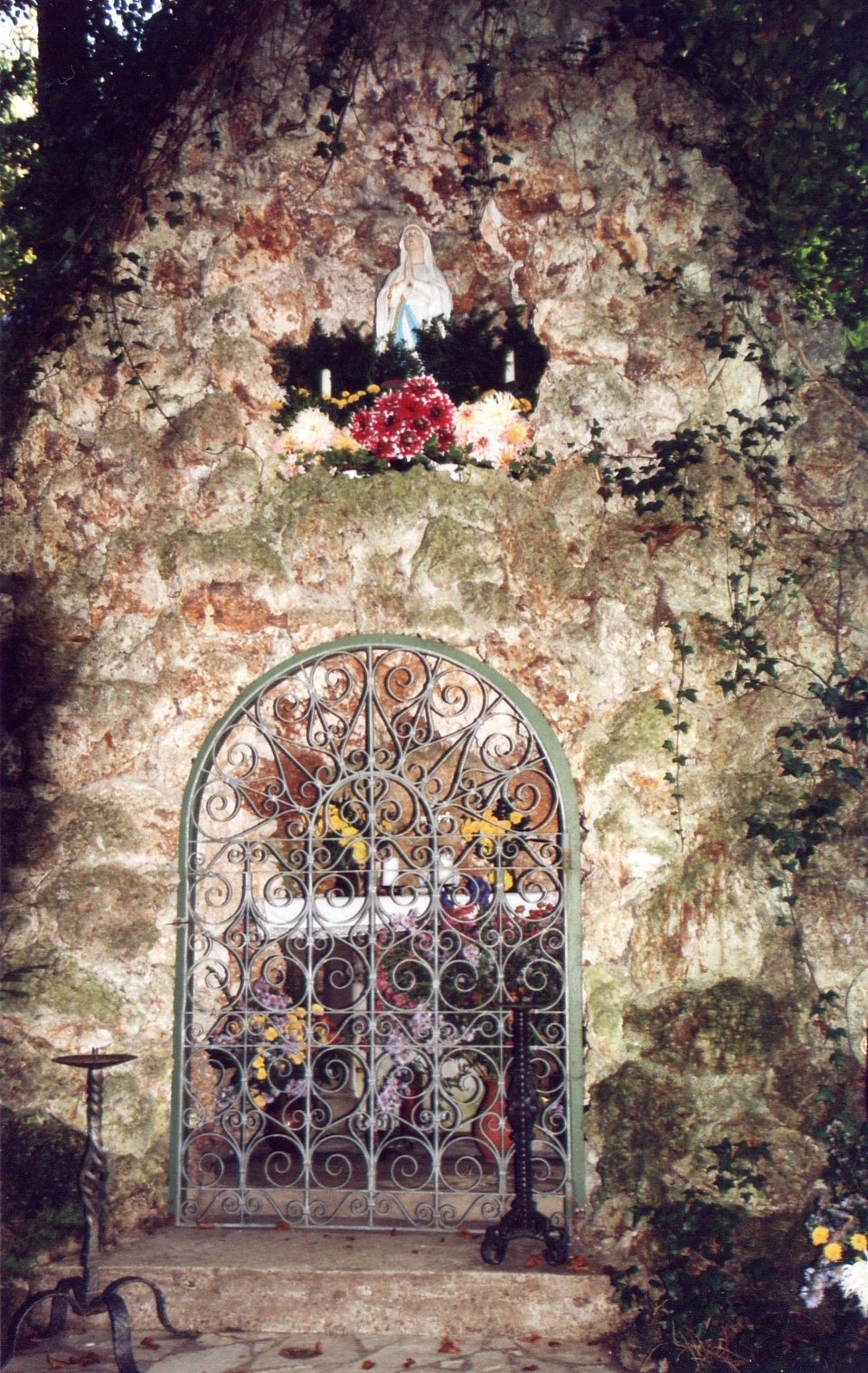 Description: Die Lourdes-Grotte zu Raunertshofen (Grotto of Raunertshofen) Photographer: Joe Quimby Date: 23. Octobre 2006